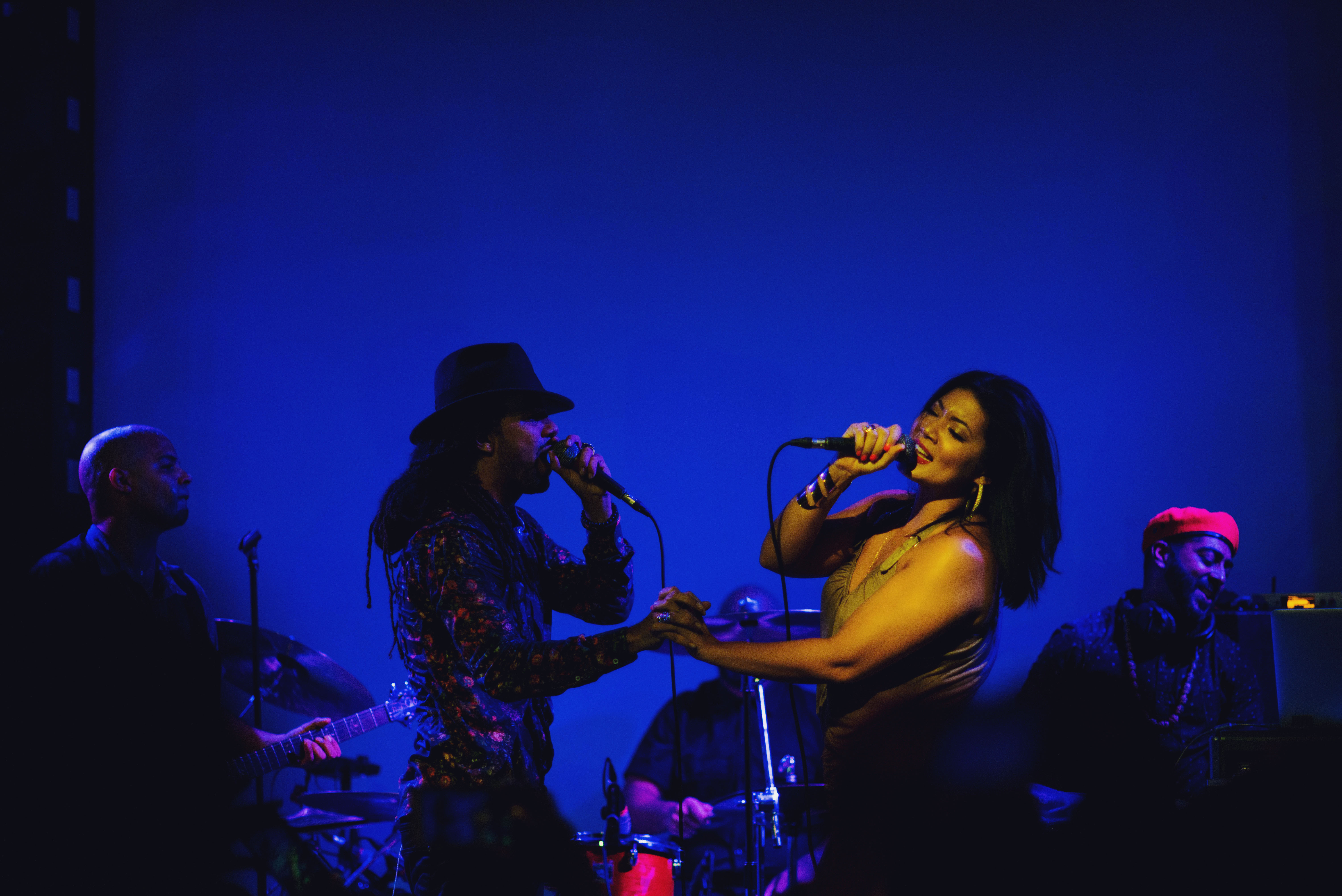 Kees and season 5 winner of the Voice Tessanne Chin, perform their hit single "Lovin' You" at SOBs Night Club New York 06.09.2016